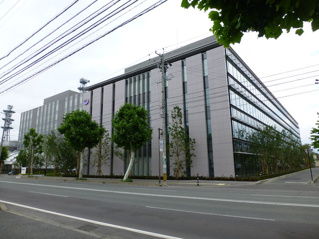 The head office of Densan. Co., Ltd. in Nagano, Nagano, Japan